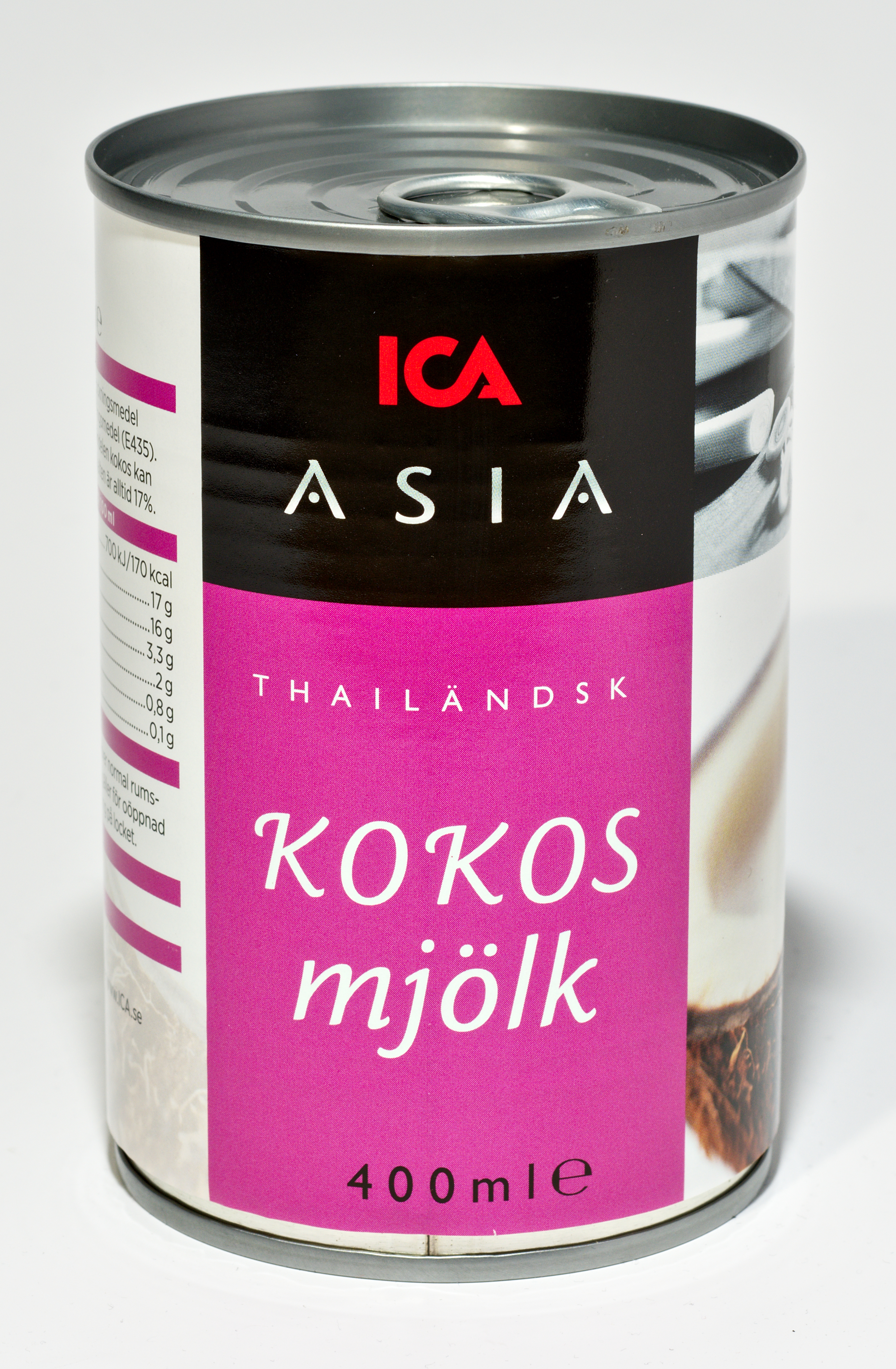 Coconut milk in a can.